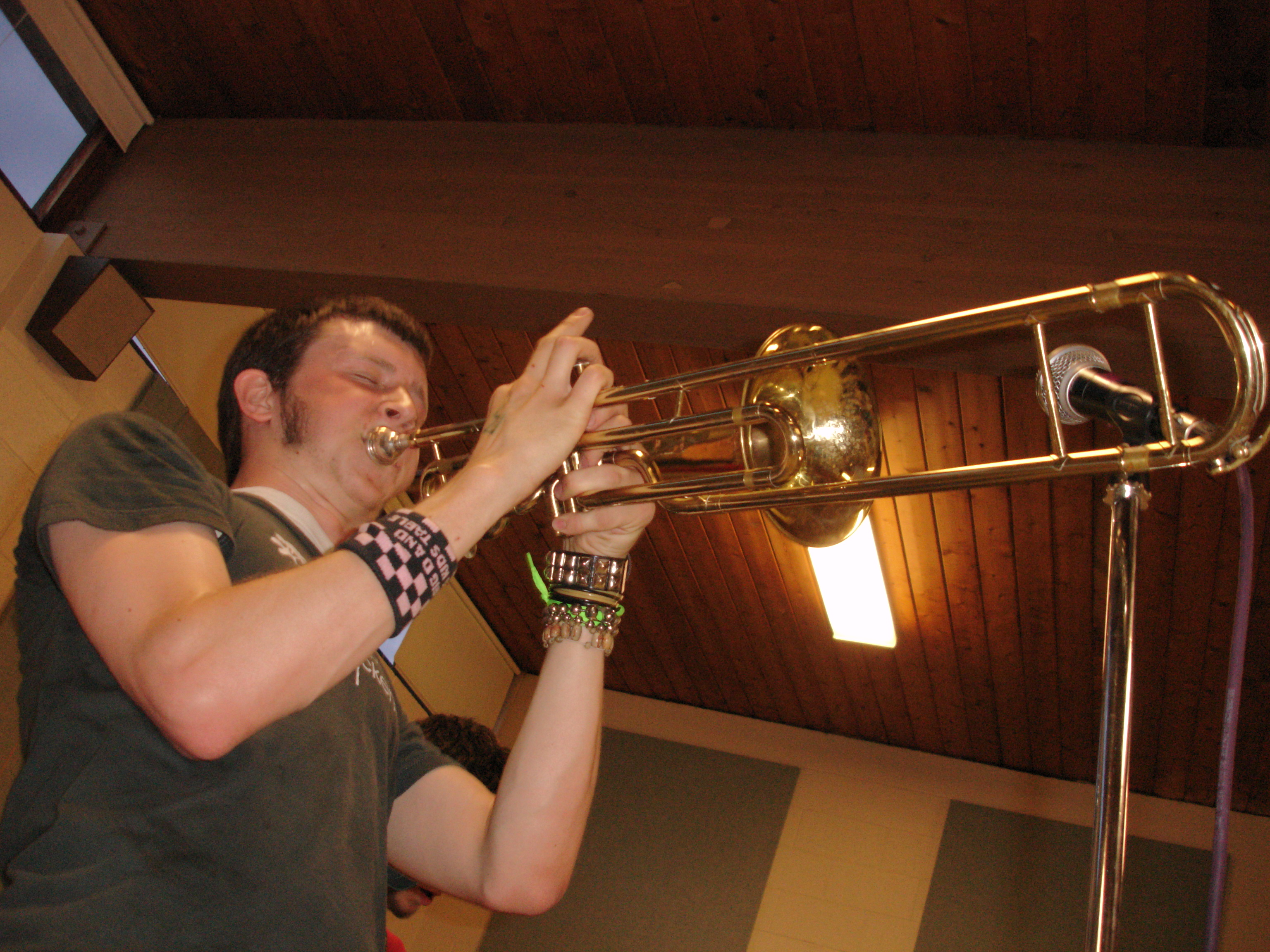 Matt Belanger of the Ann Arbor-based ska band We Are the Union, playing a valve trombone. Photo taken at Gates Presbyterian Church in Rochester, United States, with a Sony DSC-P200 digital camera.